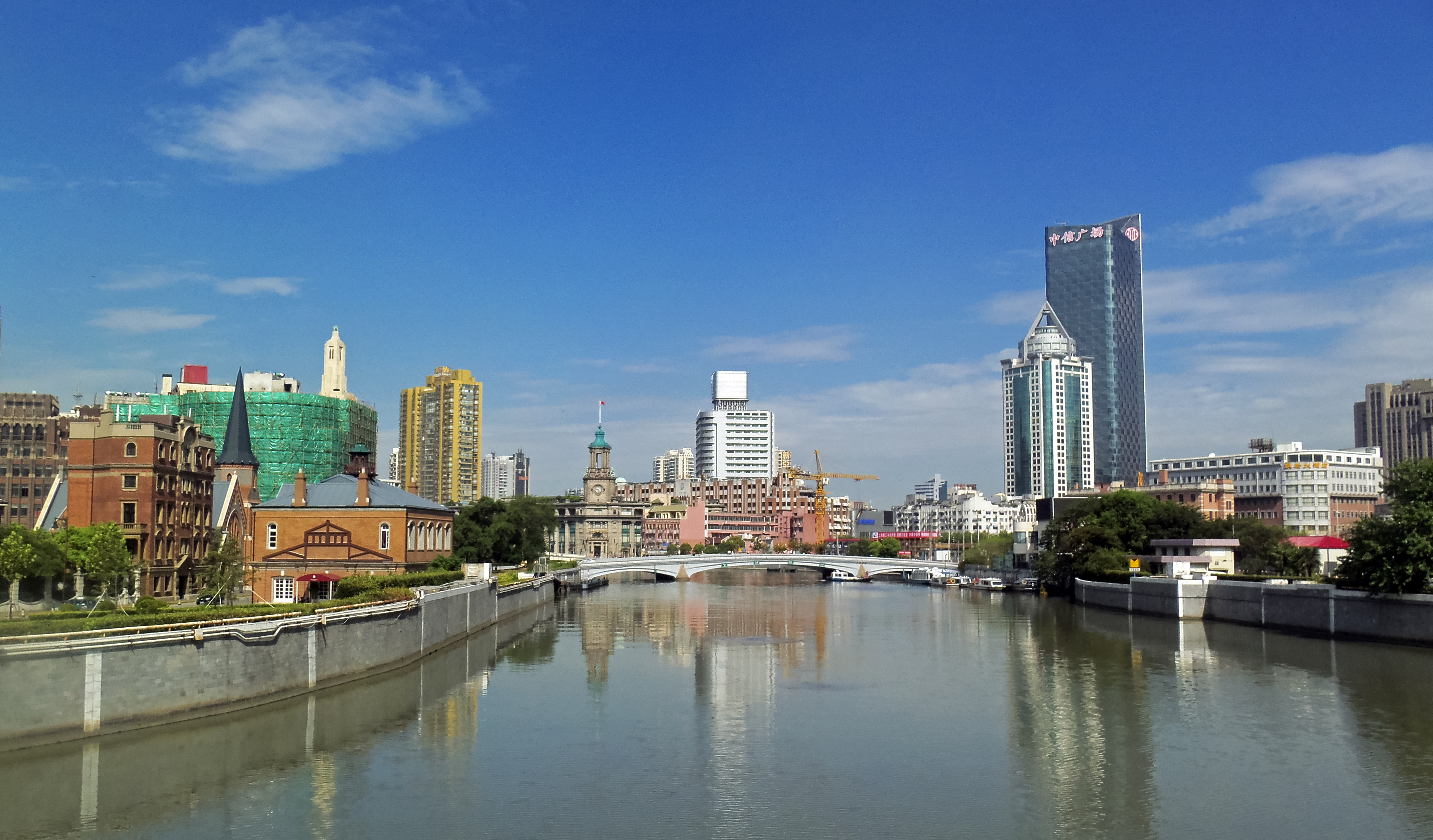 View up Suzhou Creek from Waibaidu Bridge at the north end of the Bund, Shanghai